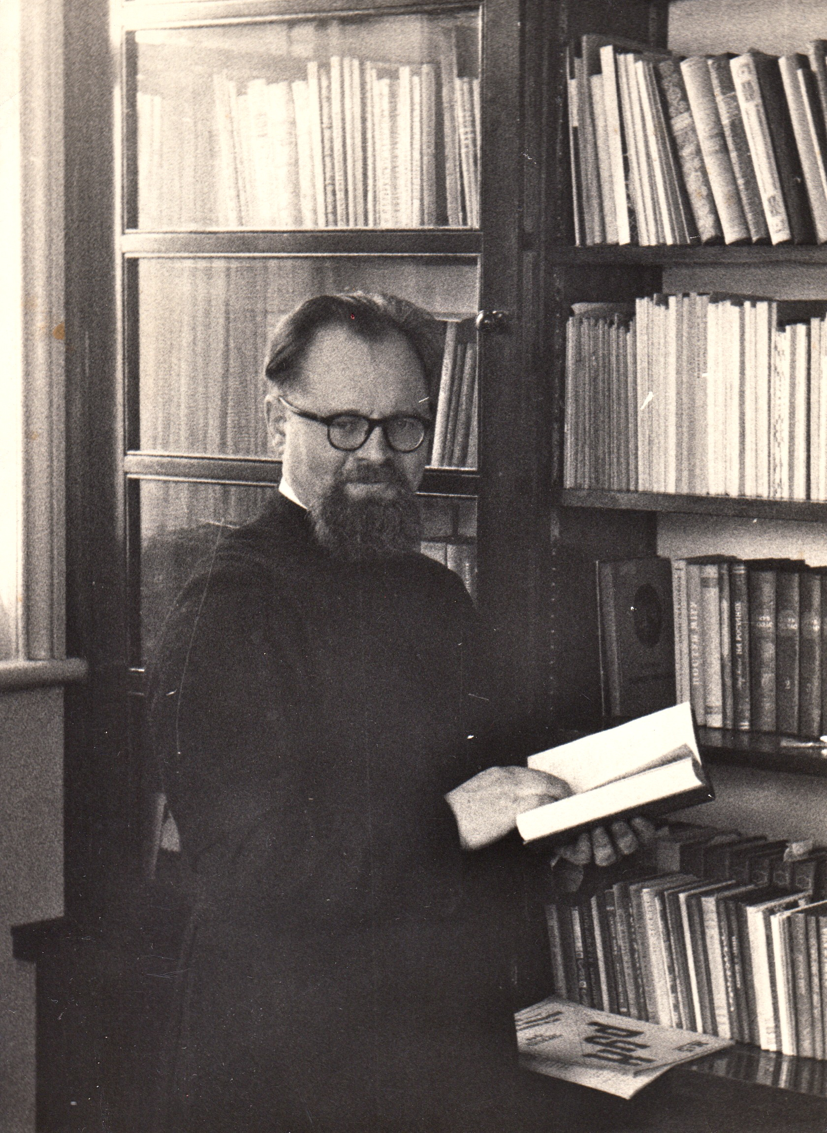 Bishop Sipovich. Photo from the collection of the Belarusian Francis Skaryna Library and Museum, London.